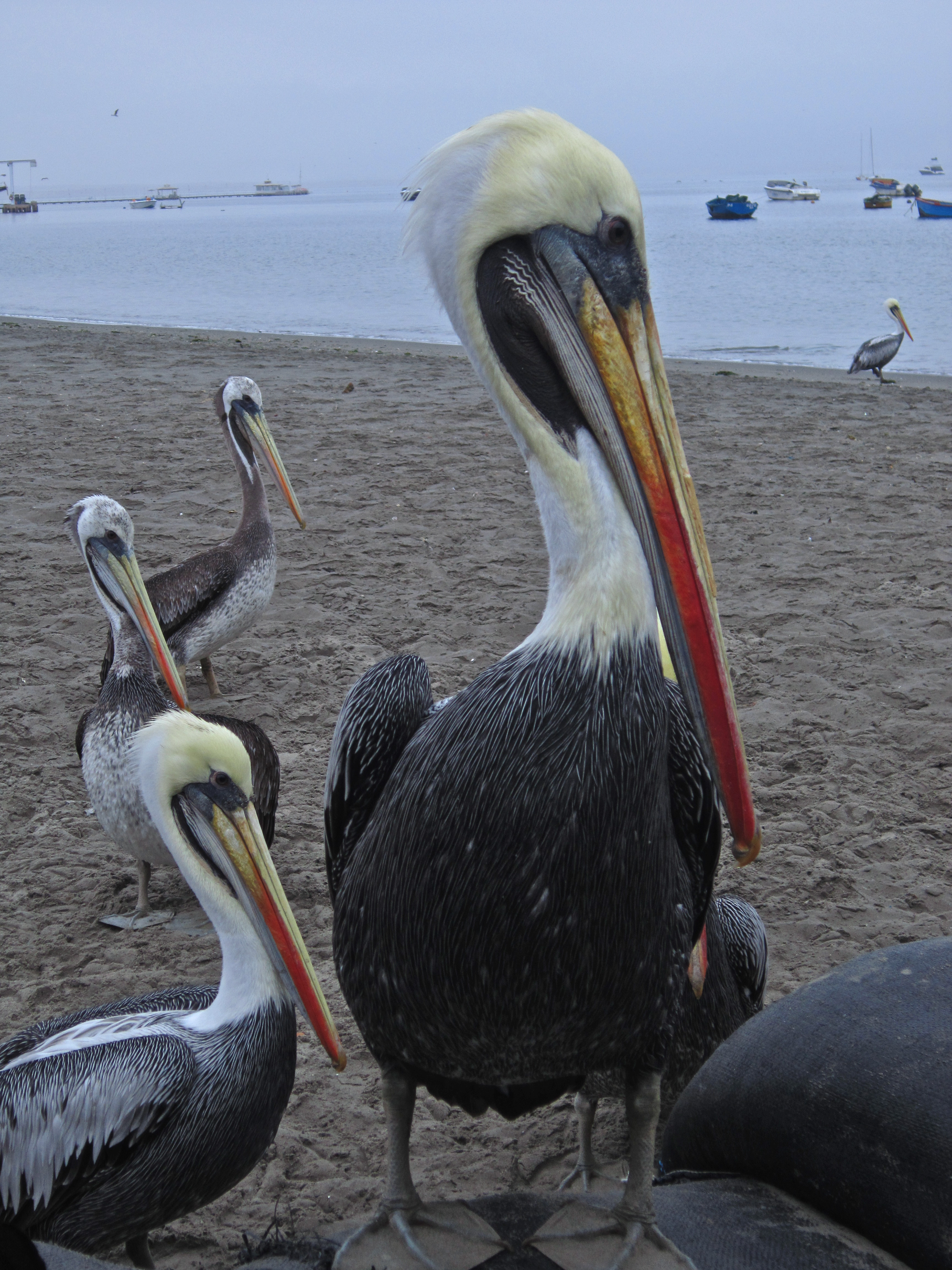 National Reserve of Paracas, Peru